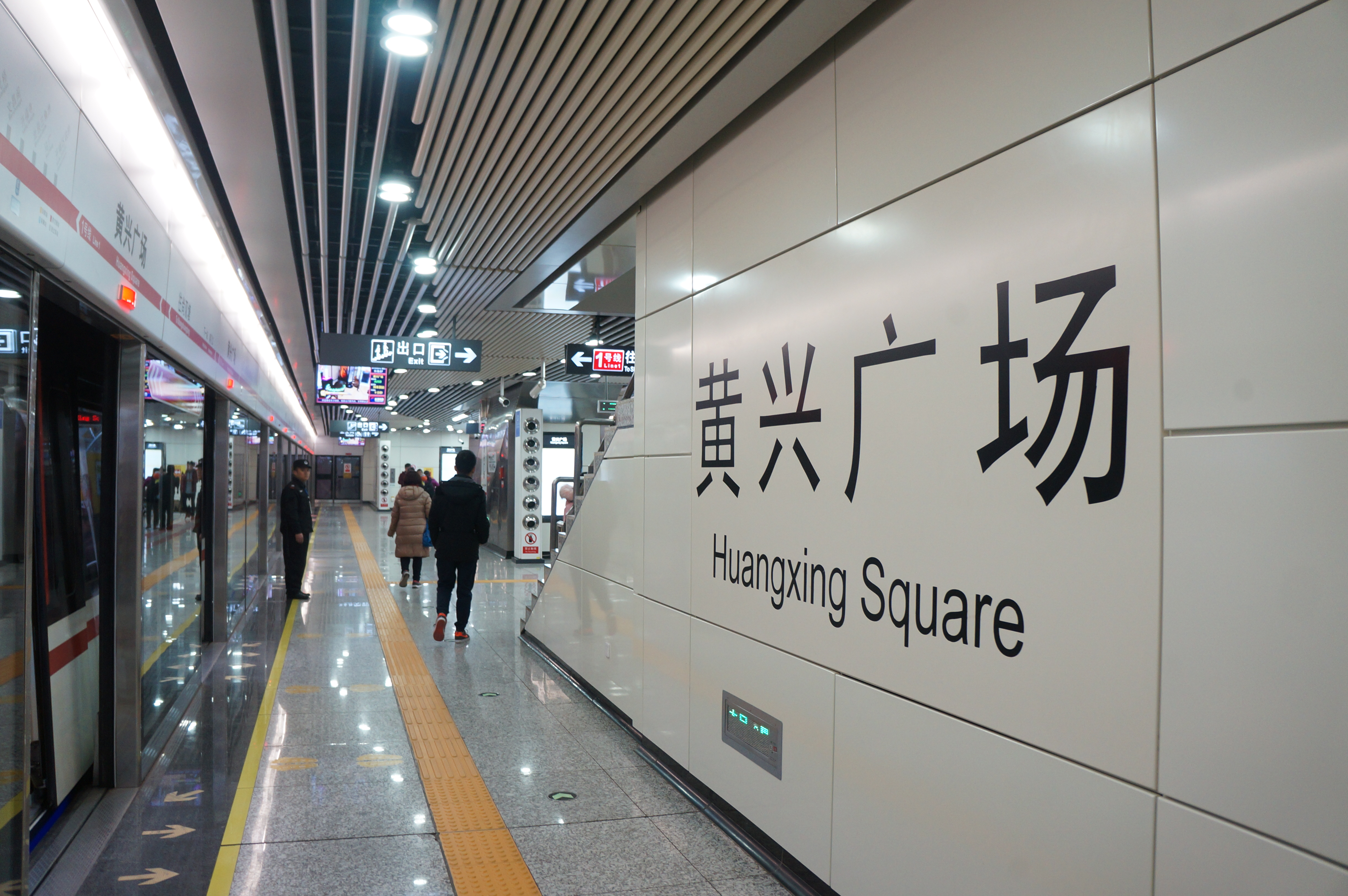 201712 Nameboard of Huangxing Square Station